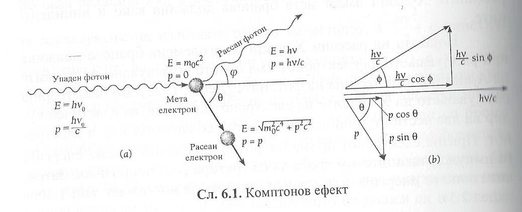 Compton effect in physics